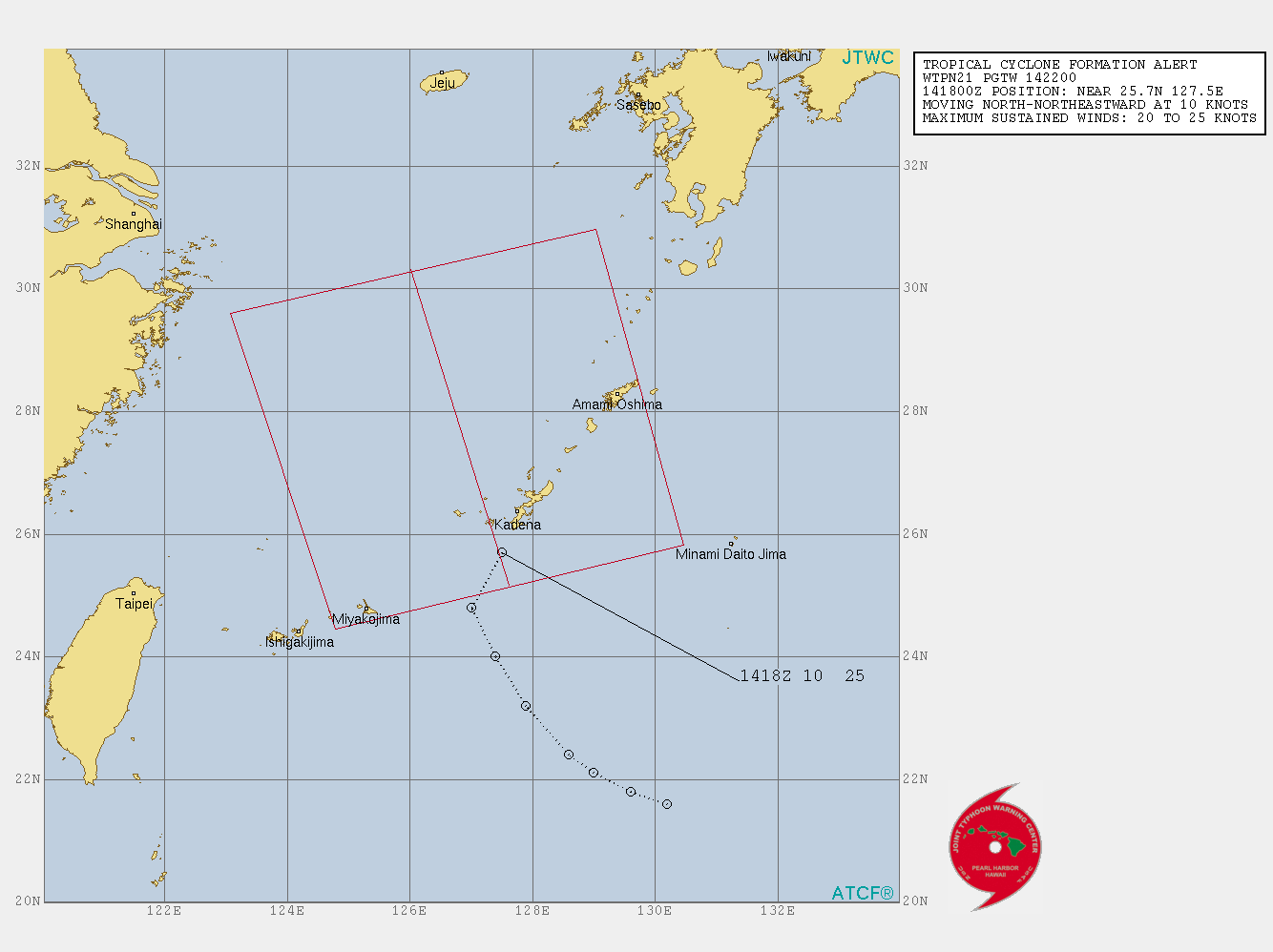 Tropical Cyclone Formation Alert graphic of Tropical Disturbance 98W from the Joint Typhoon Warning Center,upgraded to 21W at 15/0300Z.